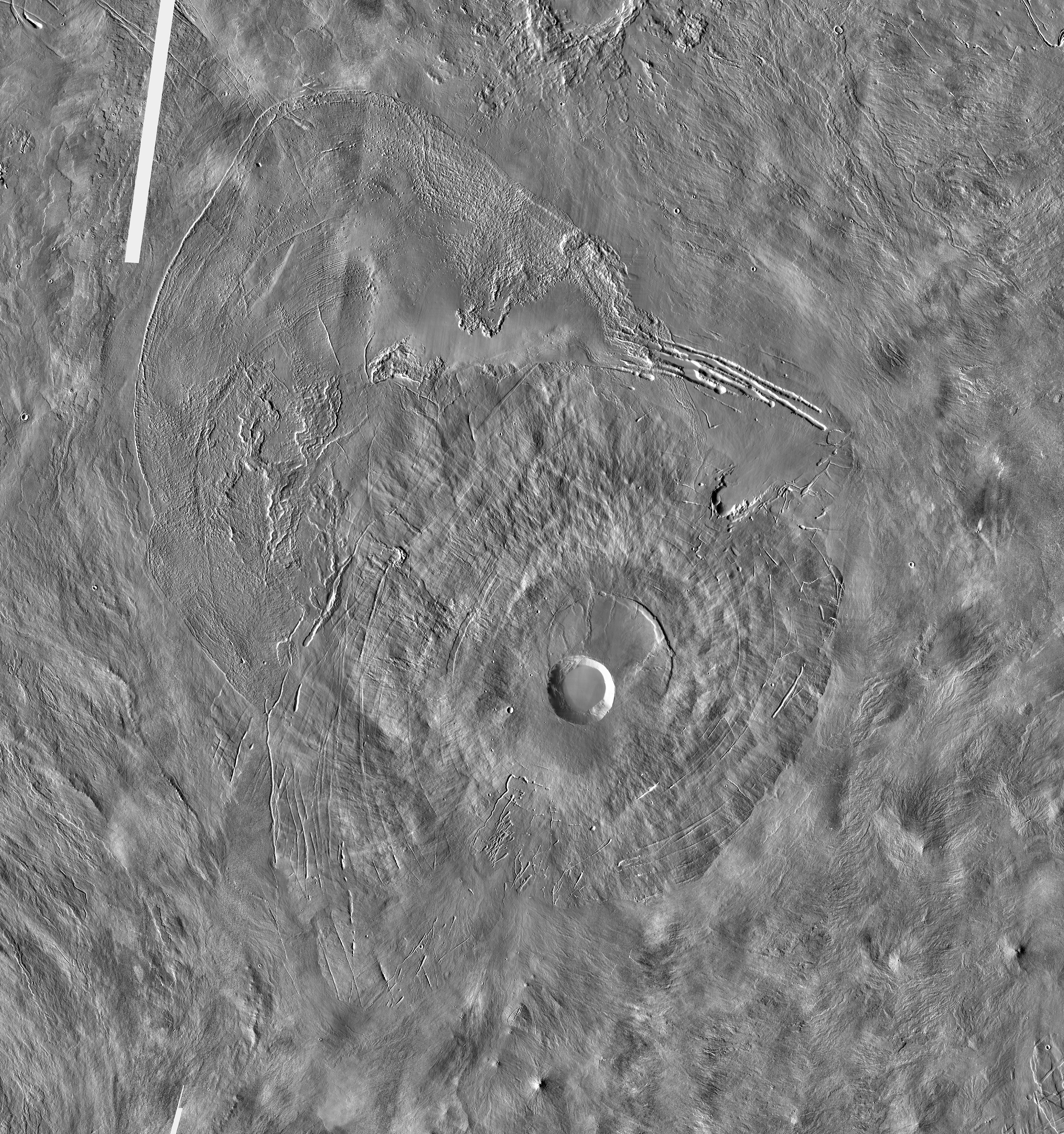 THEMIS daytime infrared image mosaic showing the shield volcano Pavonis Mons, the central of three peaks in the Tharsis Montes chain, in the central part of the Tharsis region of Mars.